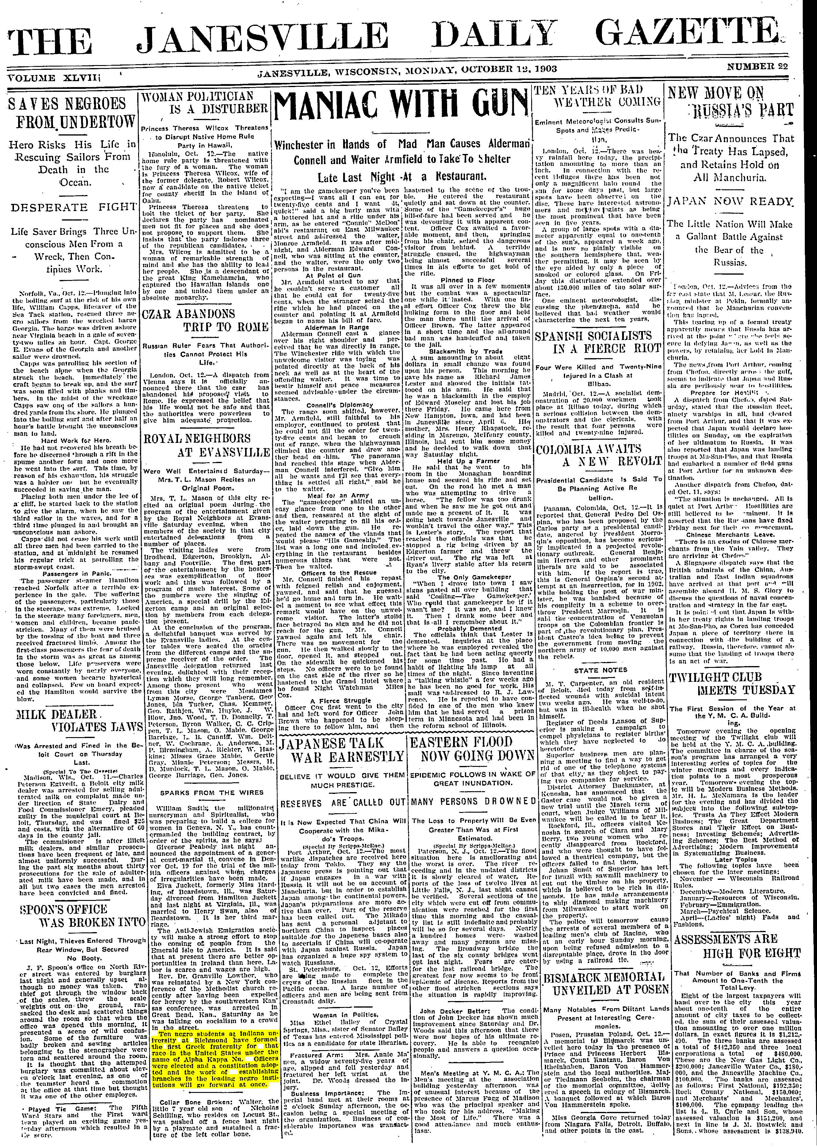 Newspaper Article about formation of the first African American Greek Letter Organization - Alpha Kappa Nu